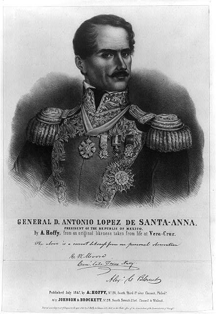 Generał Santa Anna (US Congress Library, LC-USZ62-21276, No known restrictions on publication)